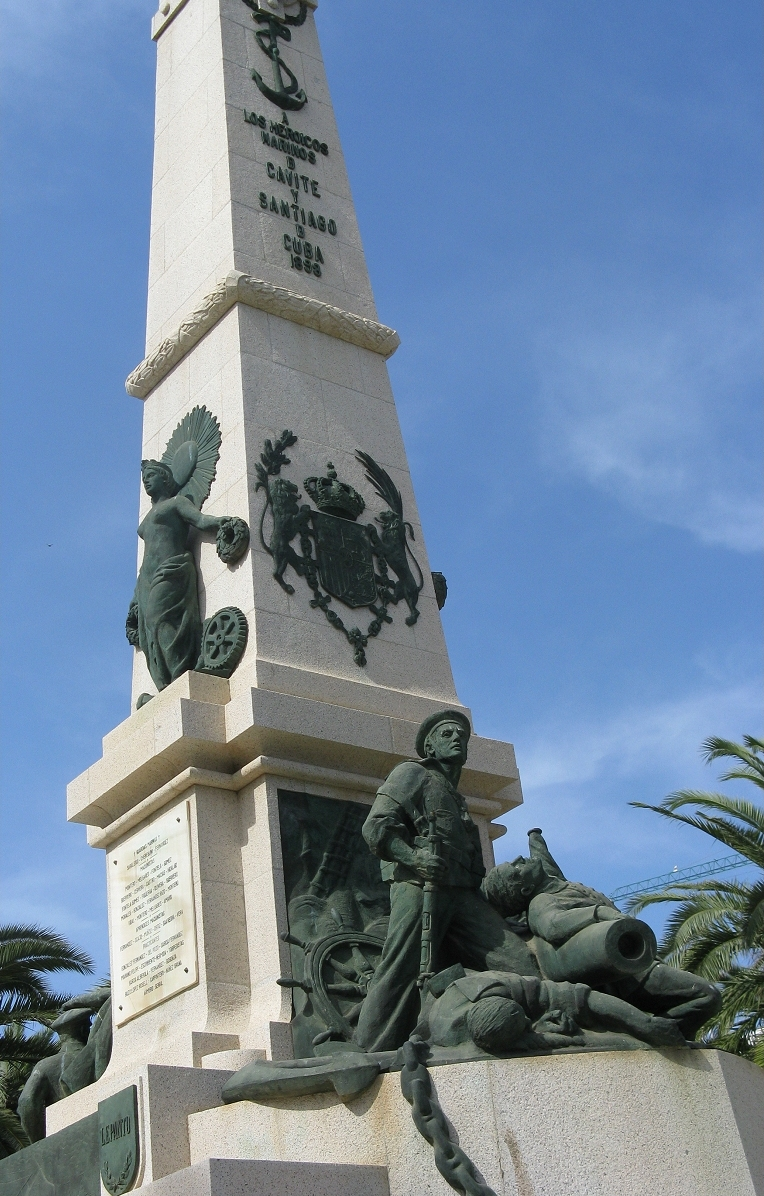 Monument to Spanish Navy in Cartagena